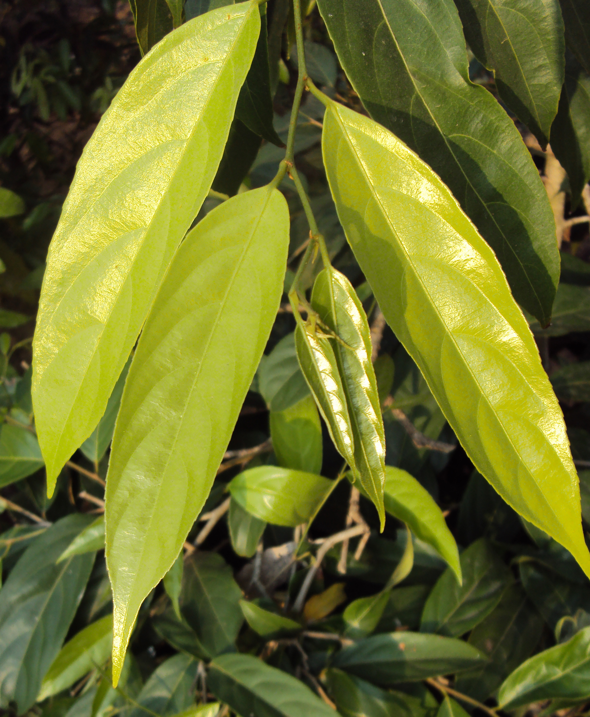 മരോട്ടി